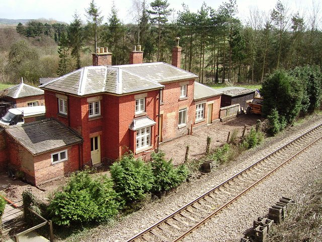 Dinmore Station. Former station just south of the tunnels.